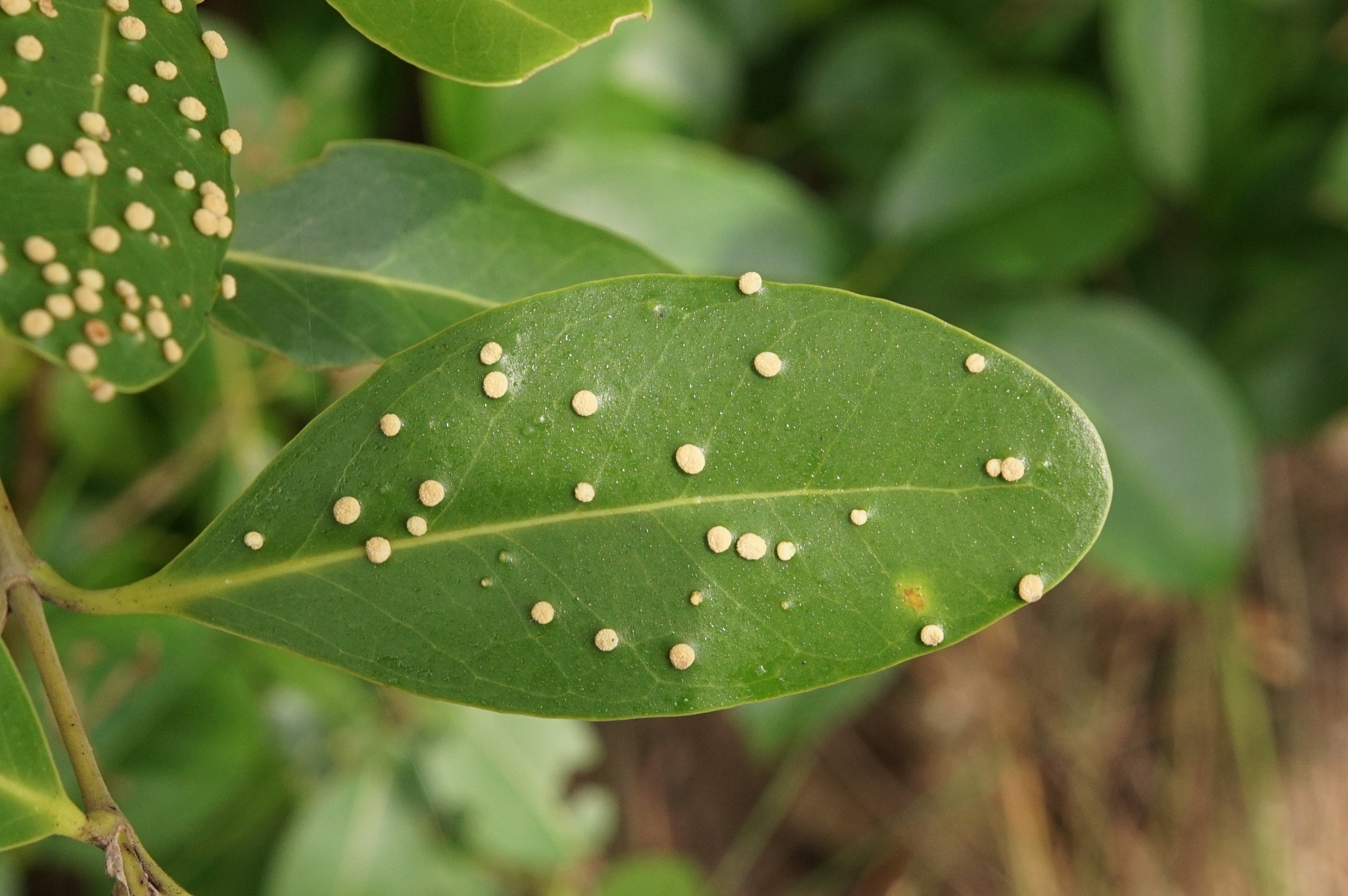 Avicennia officinalis - Leaf galls